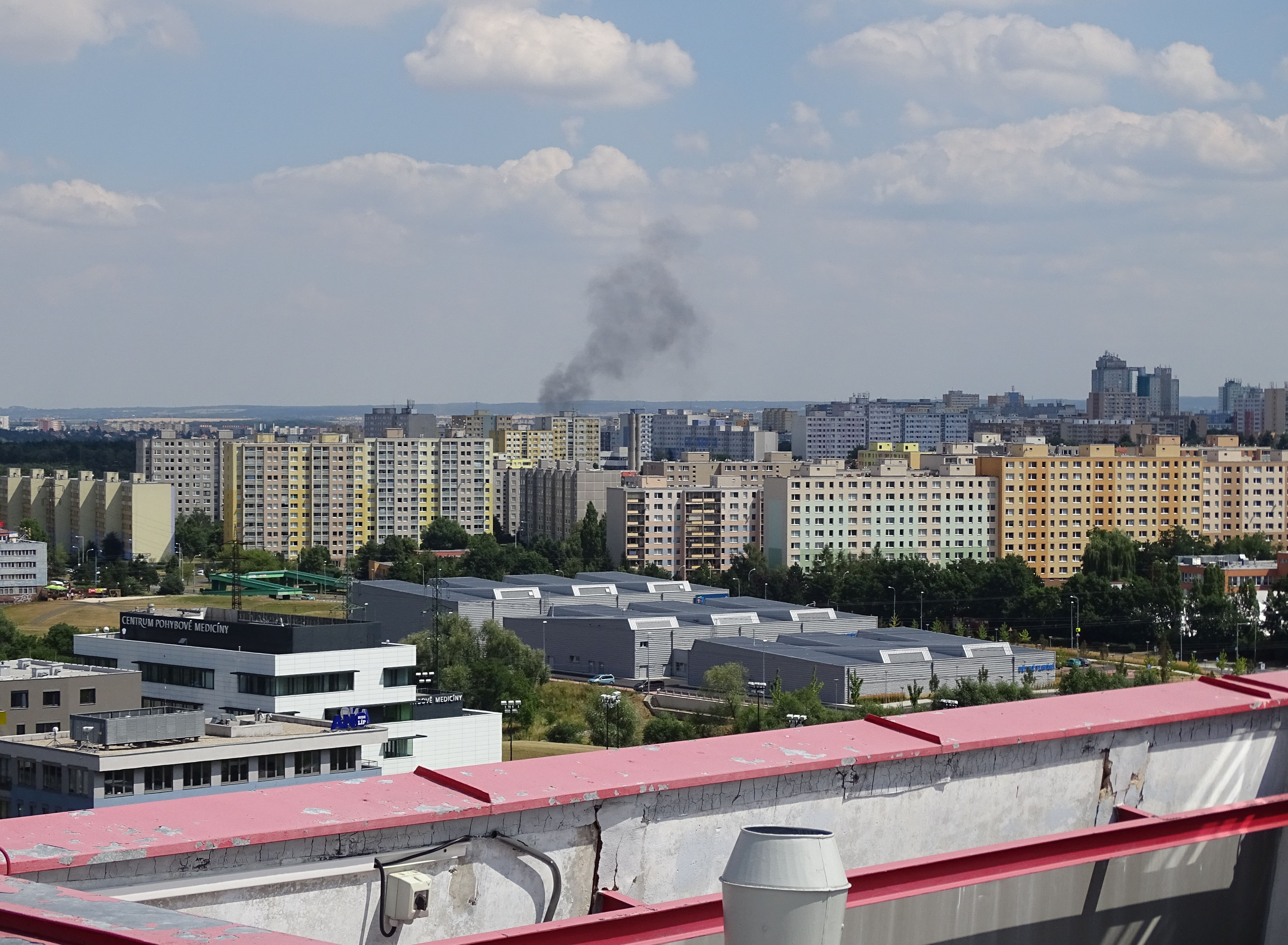 Prague-Chodov, Czech Republic. A view from Prague City Archives buildings (Archivní 1280/6). Jižní Město.